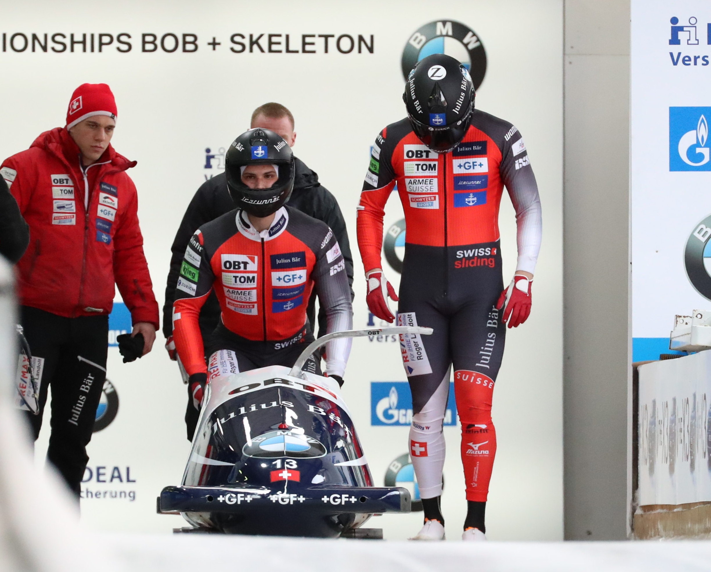 1st run at the 2-man bobsleigh at the Bobsleigh and Skeleton World Championships 2020 in Altenberg